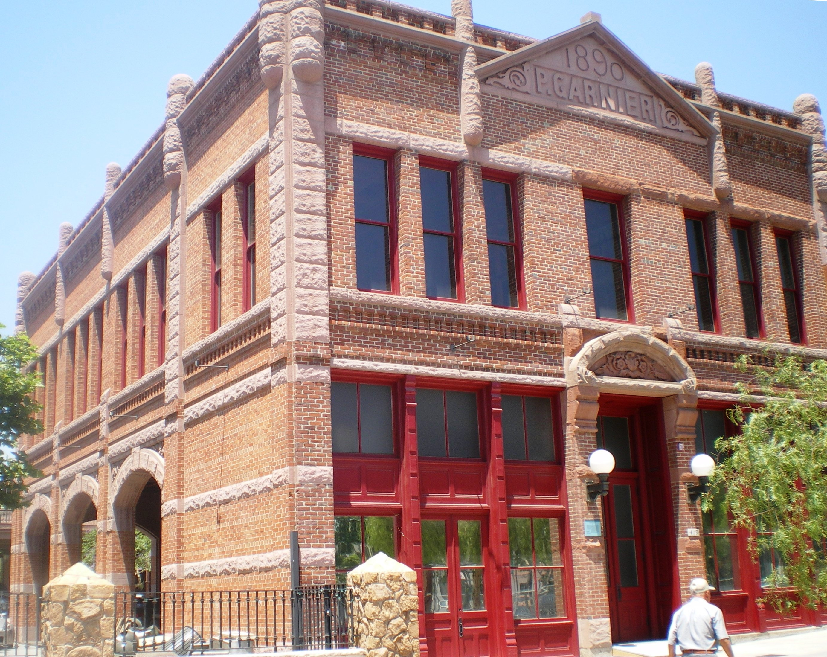 Garnier Building — in the Los Angeles Plaza Historic District Park. The Chinese American Museum is housed in the building, which was located in the city's original Chinatown. Built in the Romanesque revival style of brick and granite, in 1890 by Philippe Garnier, a French settler and prominent businessman. Historic district contributing property, and on the National Register of Historic Places in Los Angeles.